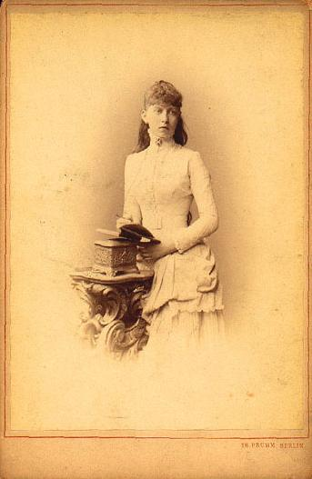 Princess Sophia of Prussia (future Queen Sophia of Greece)